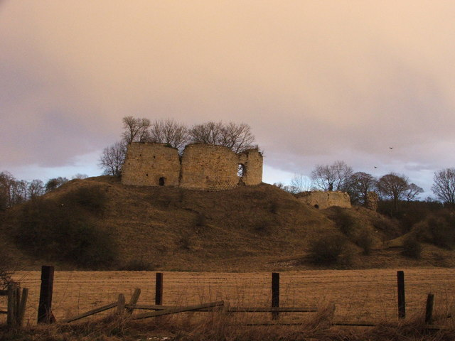 Mitford Castle. Great sky just before a snow flurry.